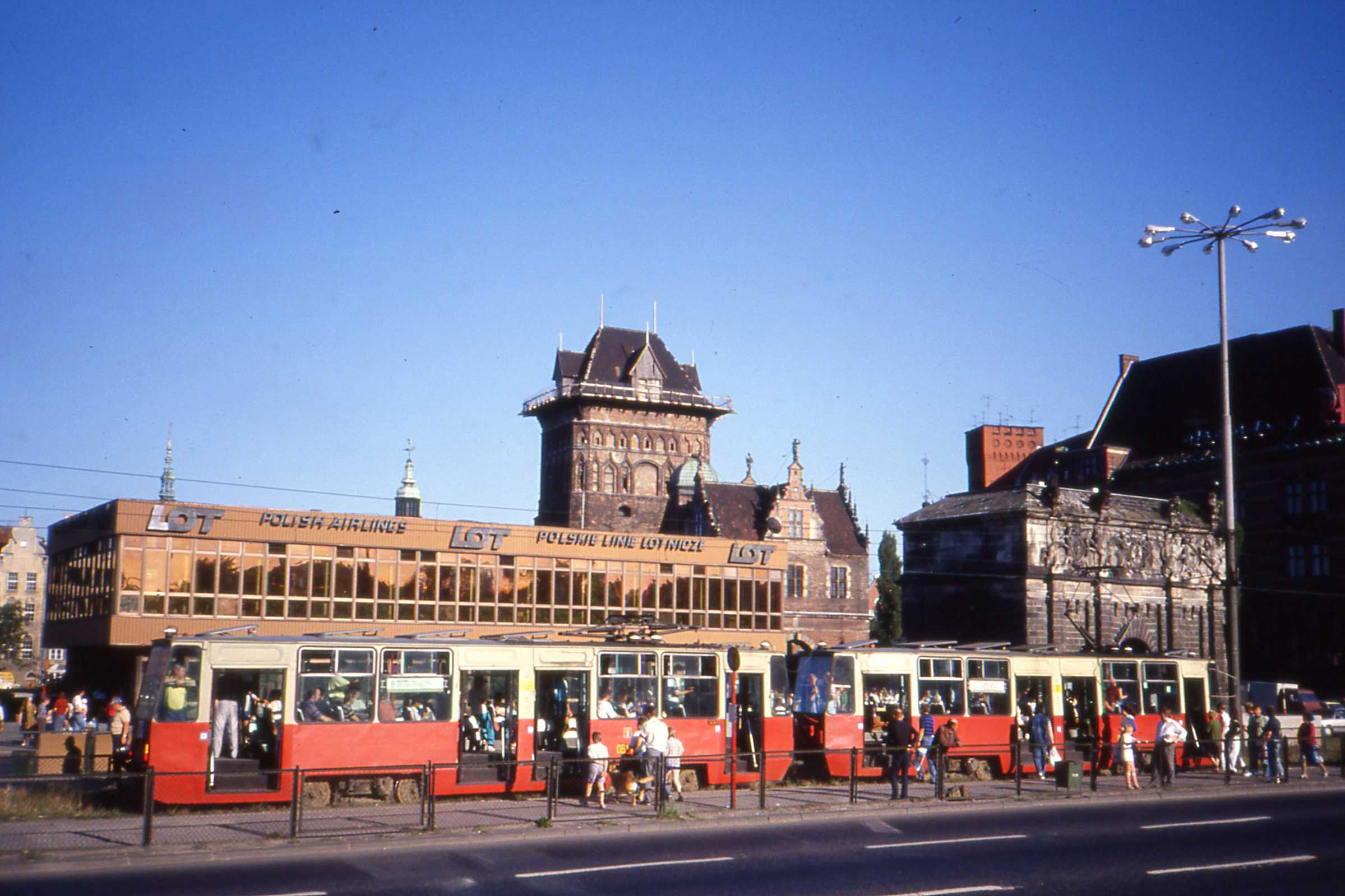 A pair of Konstal 105N cars outside the offices of LOT, the Polish state airline in Gdansk. Behind, one of the gates to the city.